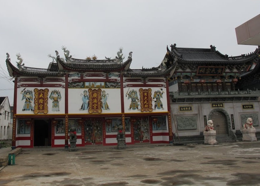 七都黄氏祠堂与广济宫, Guanji temple (left) and Huang shrine (right) in Lucheng, Wenzhou, Zhejiang, China.